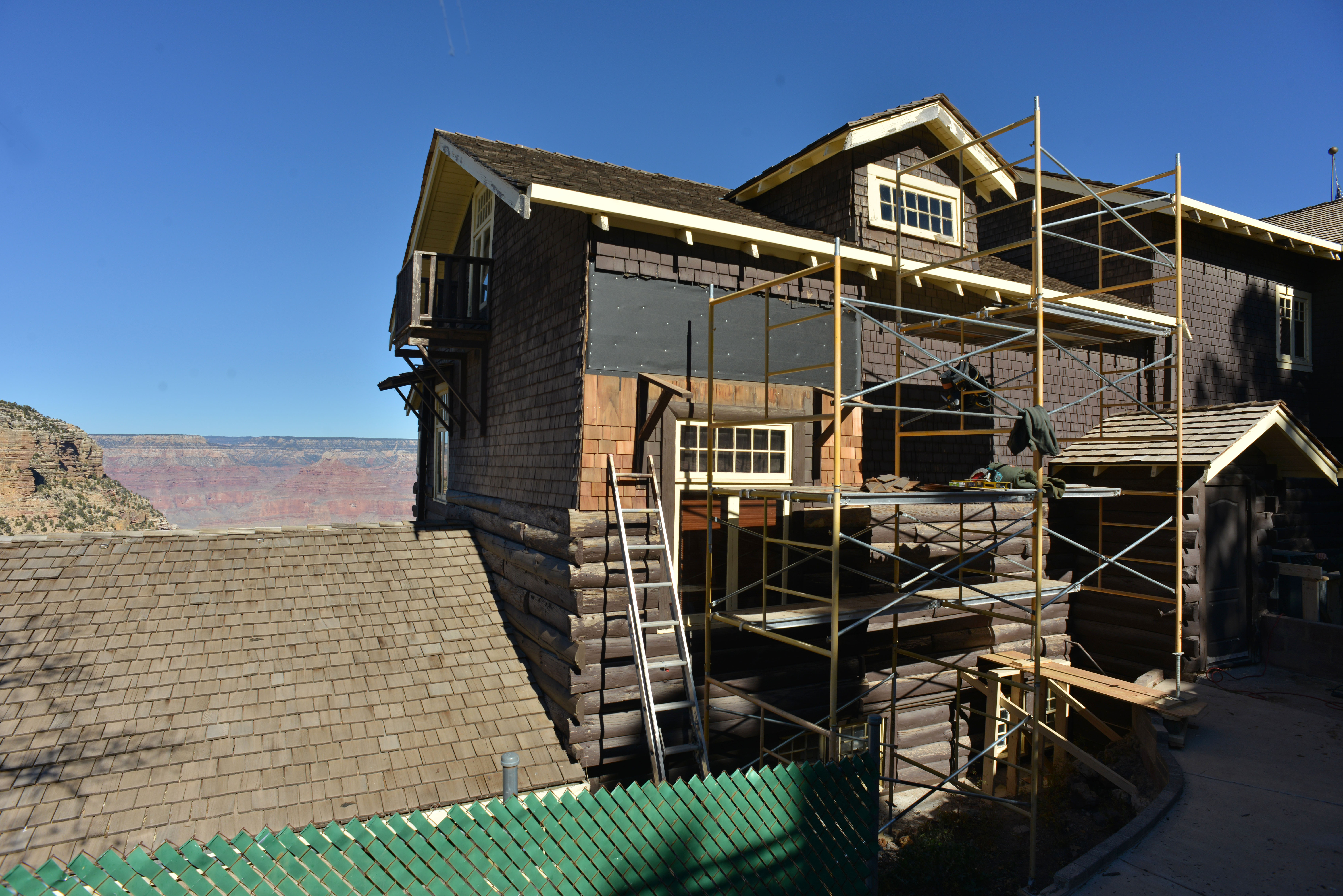 Kolb Studio — clings to the edge of the South Rim of the Grand Canyon, in Grand Canyon Village, Grand Canyon National Park, Arizona. It was the home and photographic studio of Grand Canyon pioneers, Emery and Ellsworth Kolb, and was begun in 1904. Today, this historic studio is open year-round. It contains an exhibit hall, bookstore, and information center operated by the Grand Canyon Association. Image Repair and replacement of log and shingle siding - in some cases the original materials are coaxed back into place with improved fasteners, and when this isn't possible it is replaced by hand tooling new siding to match the original piece. The work of cutting and shaping the new pieces is taking place right in front of the Kolb Garage, where the public can view the process. GCA Photo by Terri Attridge. Project During 2013 and 2014, with help from donors, GCA is in the process of rehabilitating this valuable piece of Grand Canyon History in order to keep it available for generations to come. Work includeds Addressing structural degradation of Kolb Studio by: a) rectifying drainage problems from public sidewalks and corresponding retaining walls, b) stabilizing the concrete entranceway to assure safe continuing access to the facility c) repairing and replacing exterior building features (e.g. log and shingle siding, structural beams, gutters, wooden porches) in order to assure long-term structural integrity of the building and d) protecting restored exterior surfaces with paints, sealants and other coatings.